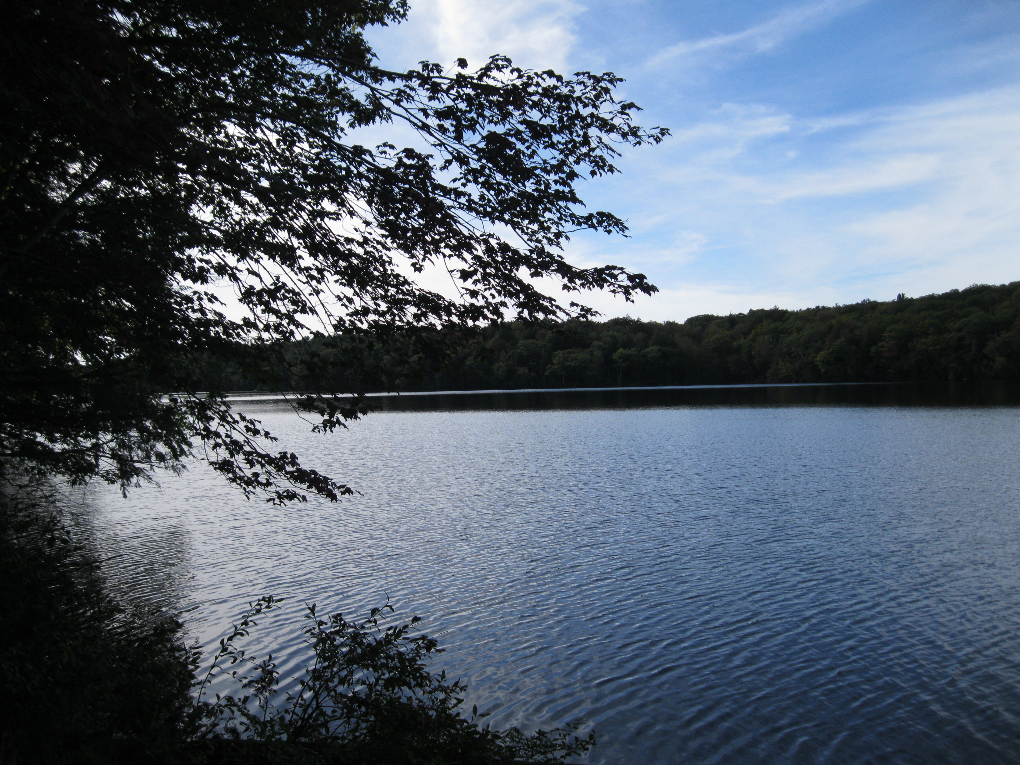 View of Long Pond outbound as seen from Long Pond Trail at Grafton Lakes State Park; Cropseyville, Rensselaer County.